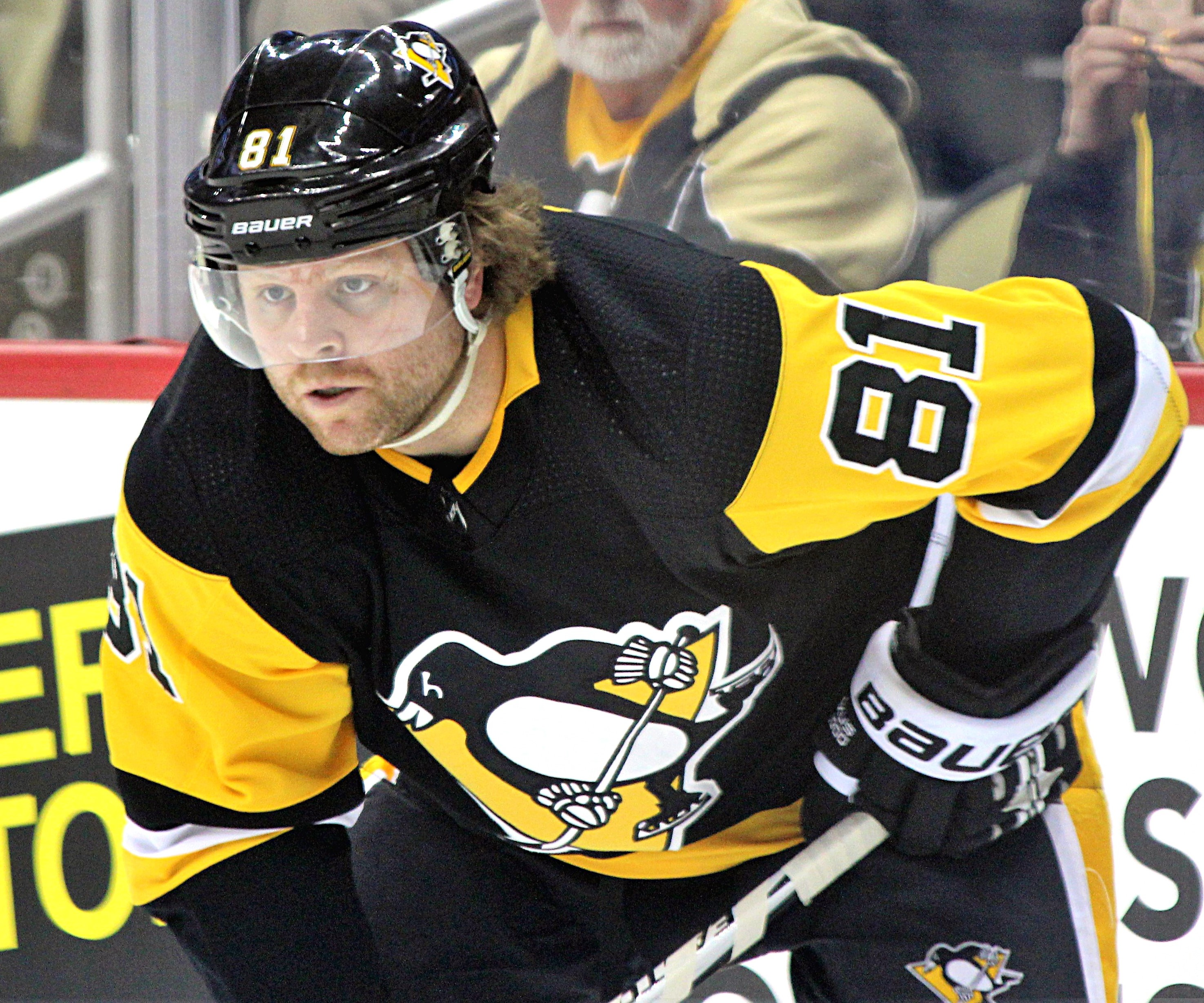 Pittsburgh Penguins forward Phil Kessel during a game against the New York Islanders, Saturday, March 3, 2018, at PPG Paints Arena in Pittsburgh, PA.